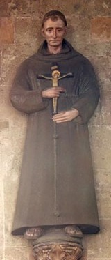 St Etheldreda, Ely Place, London EC1 - Nave statue Blessed John Forest